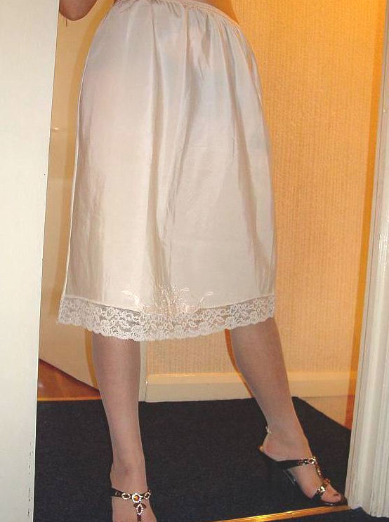 Taffeta half slip